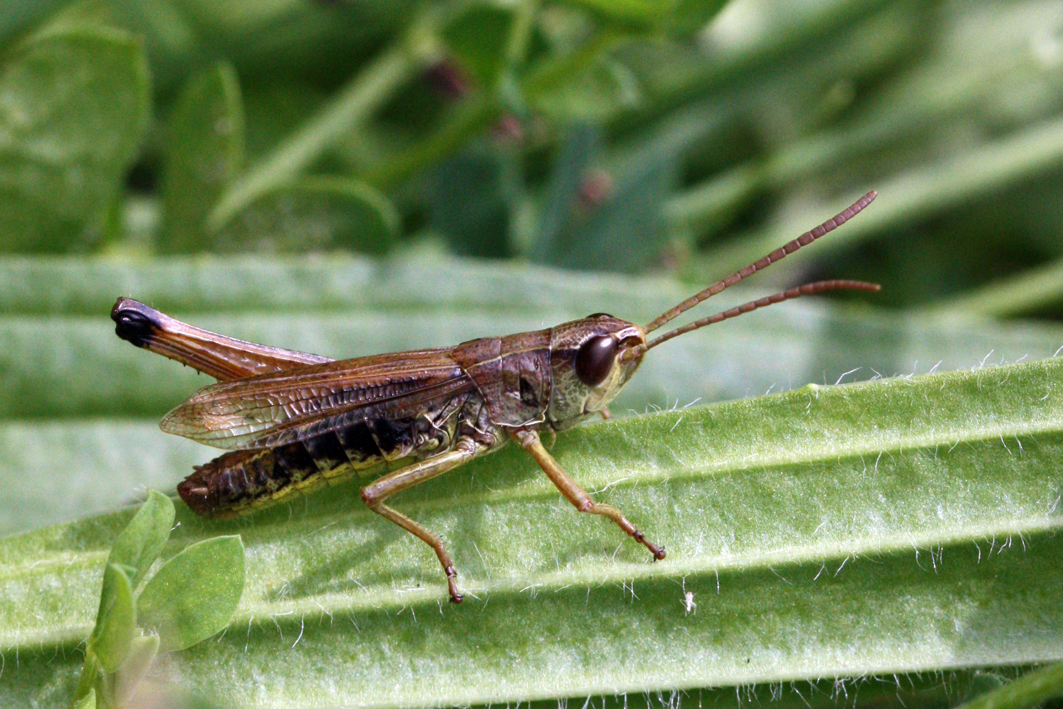 Meadow grasshopper (Chorthippus parallelus) male brown form